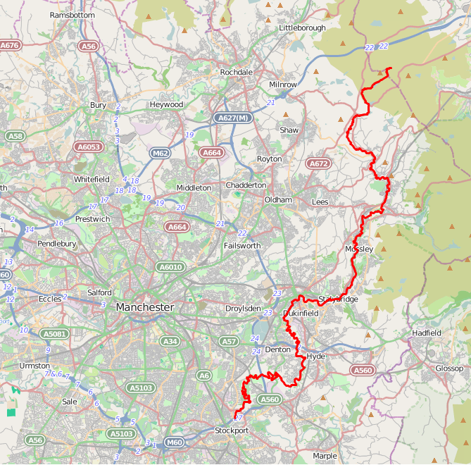 The River Tame, in Greater Manchester This map may be incomplete, and may contain errors. Don't rely solely on it for navigation.